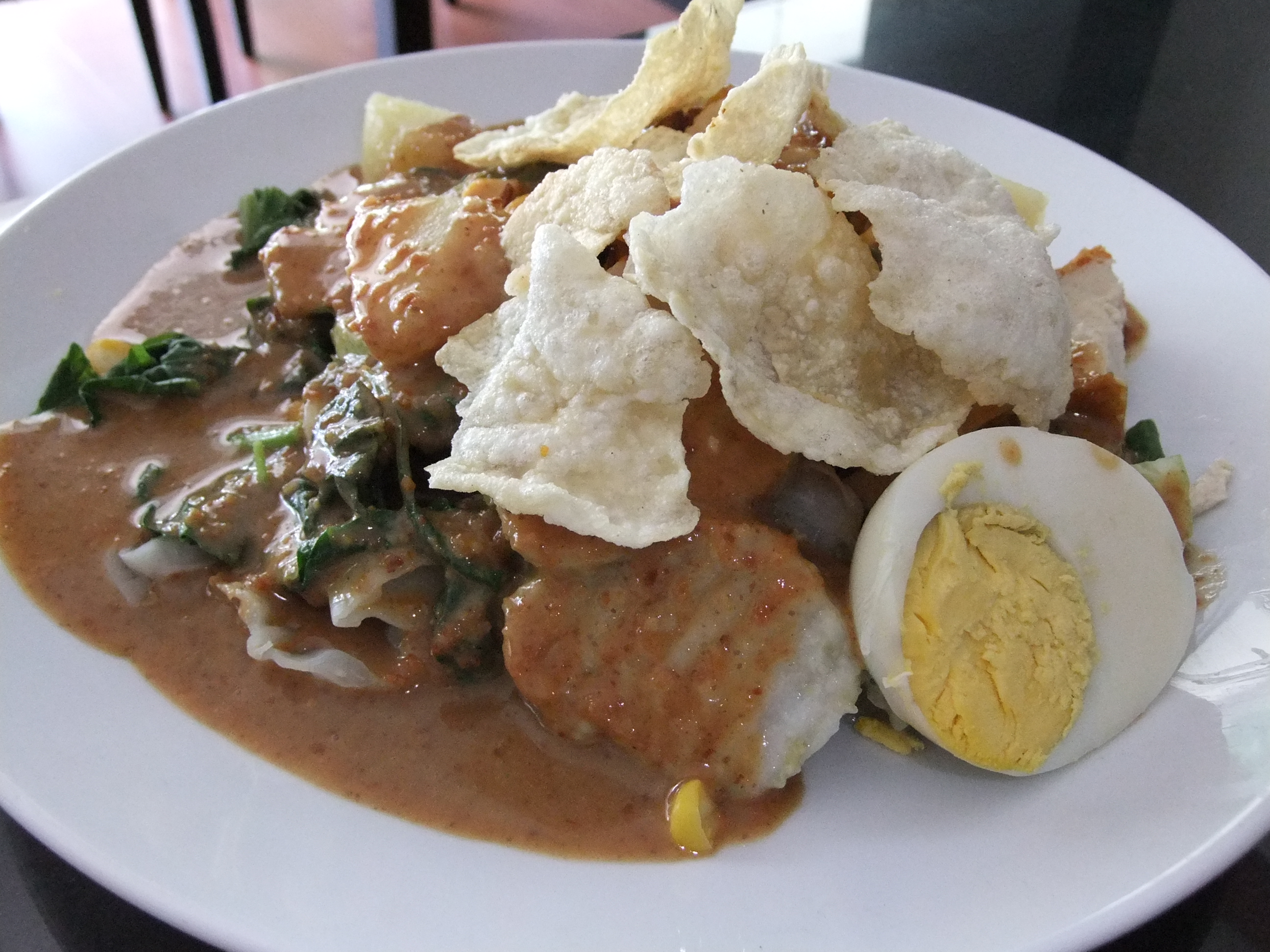 Gado-gado with lontong